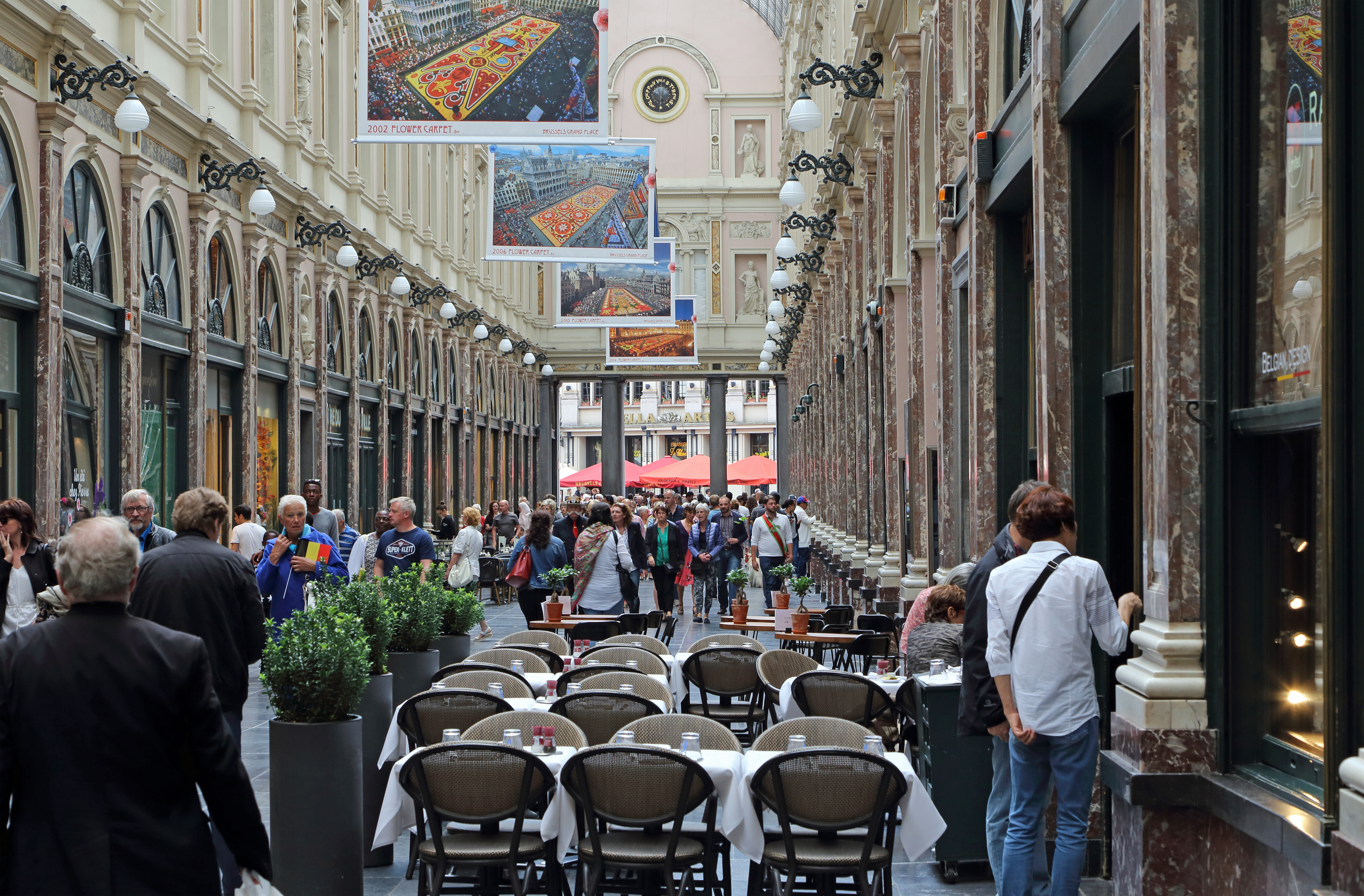 Brussels (Belgium): Koninginnegalerij / Galerie de la Reine